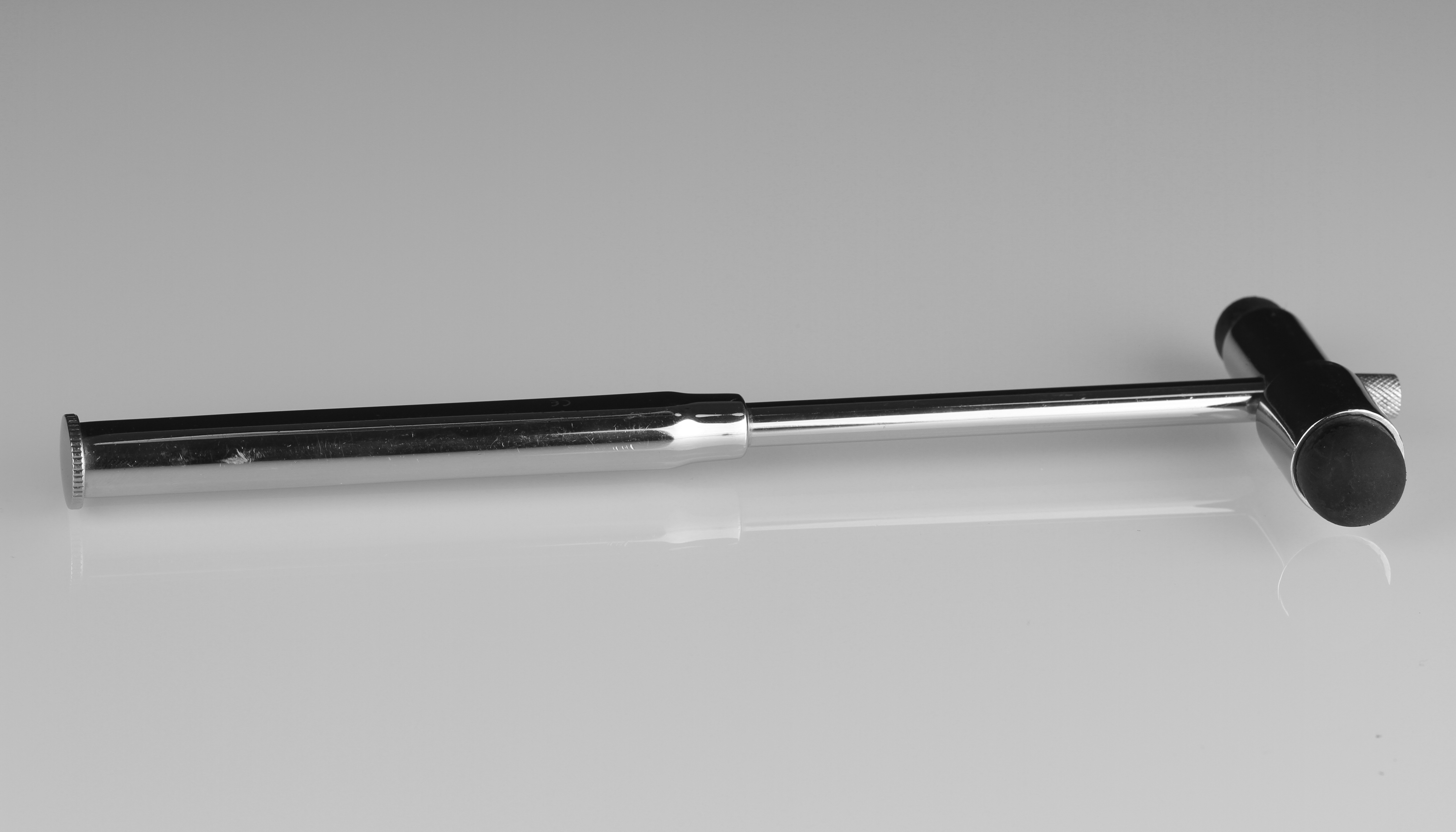 Reflex hammer (probably Buck)